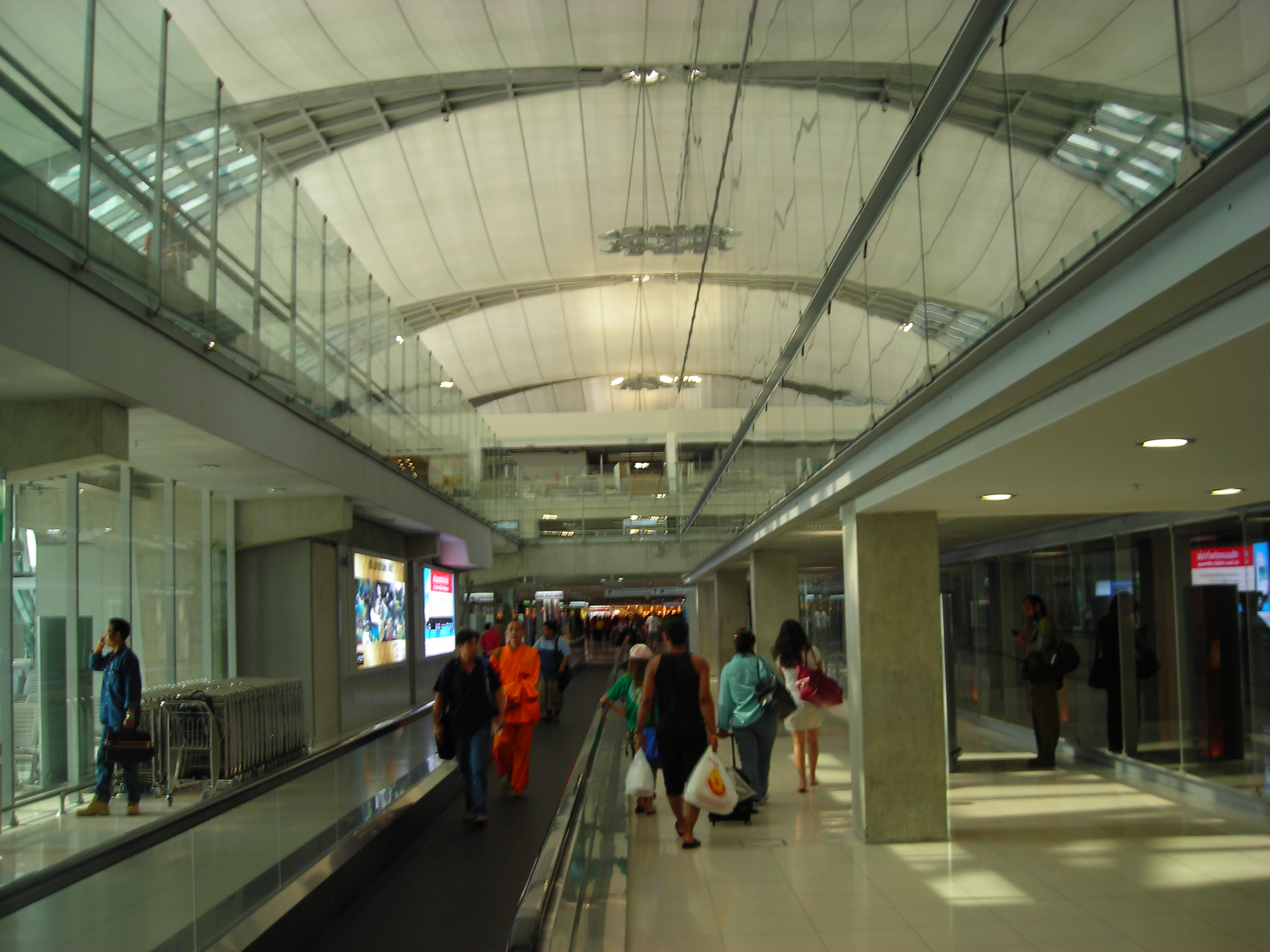 Moving sideway at Suvarnabhumi International Airport (VTBS) near Bangkok, Thailand.